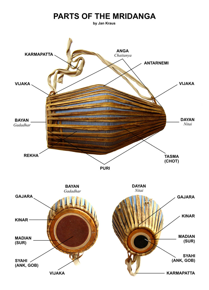 diagram showing the basic parts of the mridanga